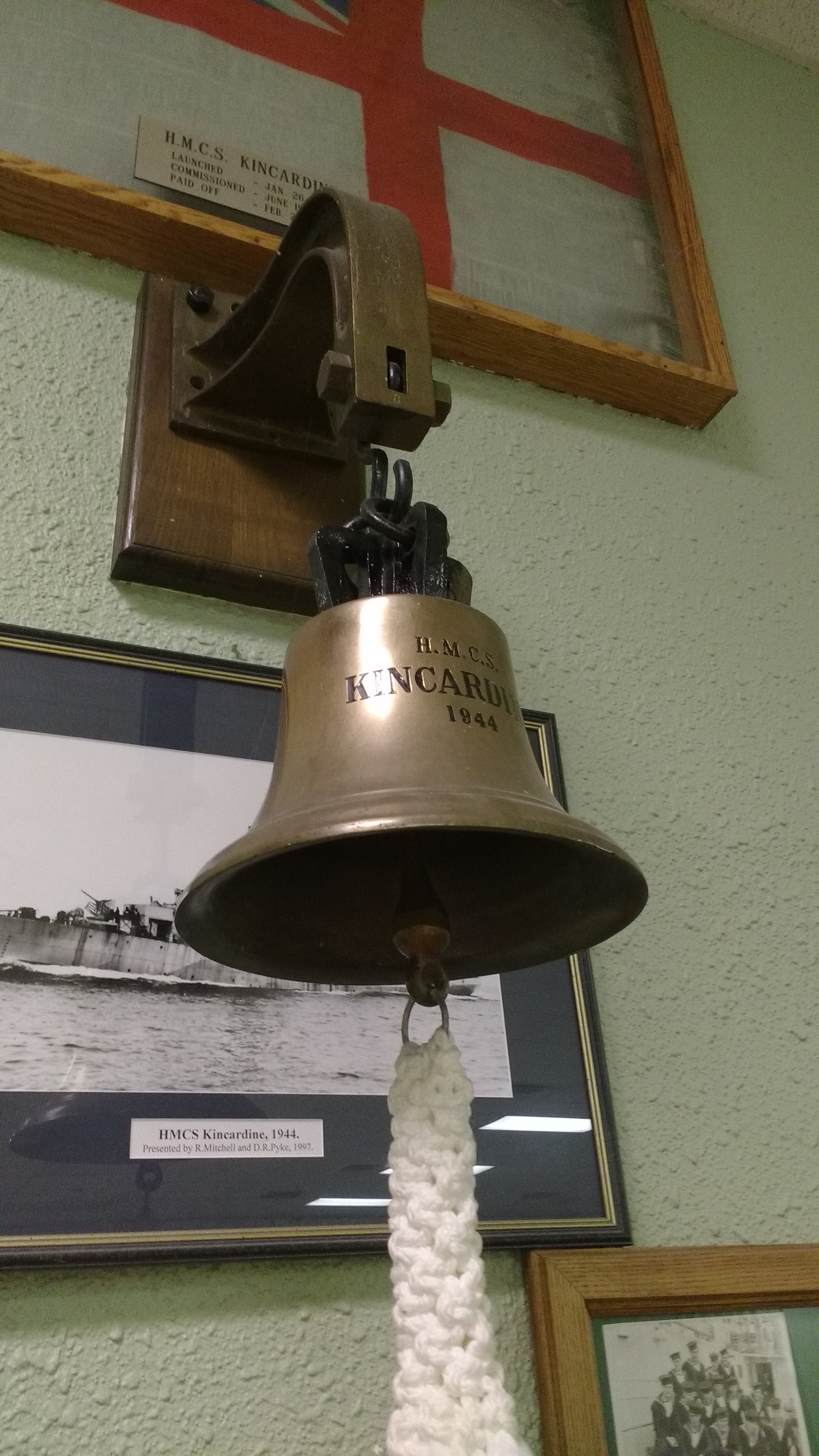 Inside the Legion in Kincardine, Ontario.